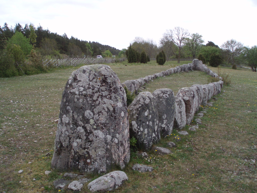 The site is next to road 140, four and a half kilometres south of Klintehamn.